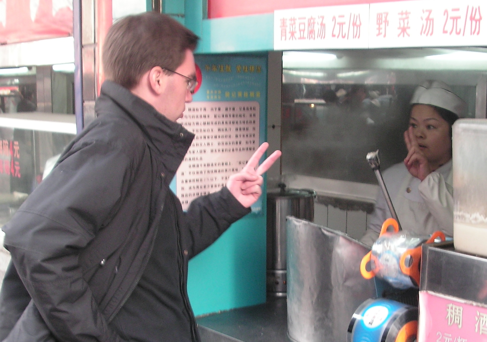 Understanding each other; seen in a street near the bell tower of Xi'an, China